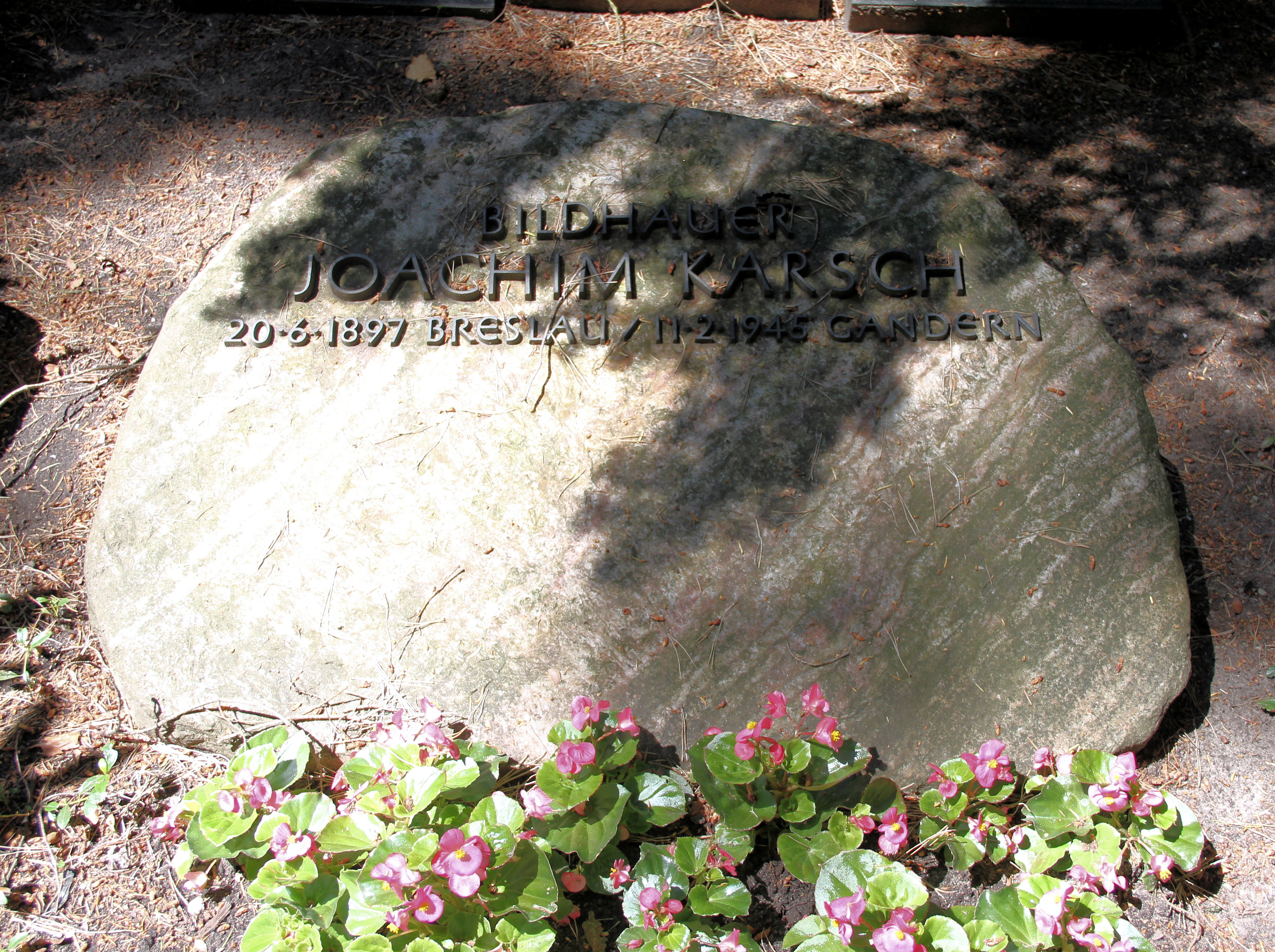 "Ehrengrab" (grave of honor), Joachim Karsch, Thuner Platz 2-4, Berlin-Lichterfelde, Germany